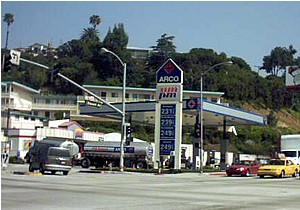 ARCO gas station in Los Angeles. Photographed on March 11, 2005. Uploaded by user Coolcaesar. The design of the station is quite typical of ARCO stations, including the blue paint scheme, the repeated use of the graphic logo made up of four red triangles forming a diamond (or rotated square), and the AM/PM convenience store. The big silvery object in the middle of the station is an ARCO tanker truck that was unloading its cargo at the time I took the picture.